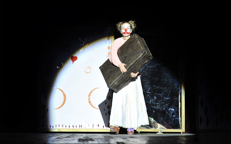 Shows of National Theater of Kosovo